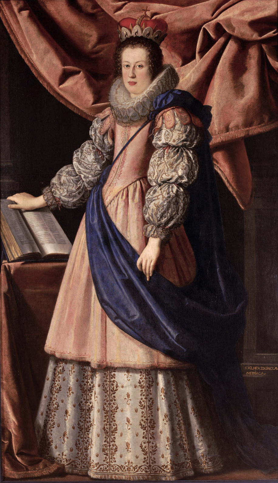 wearing the coronet of an Archduchess of Austria